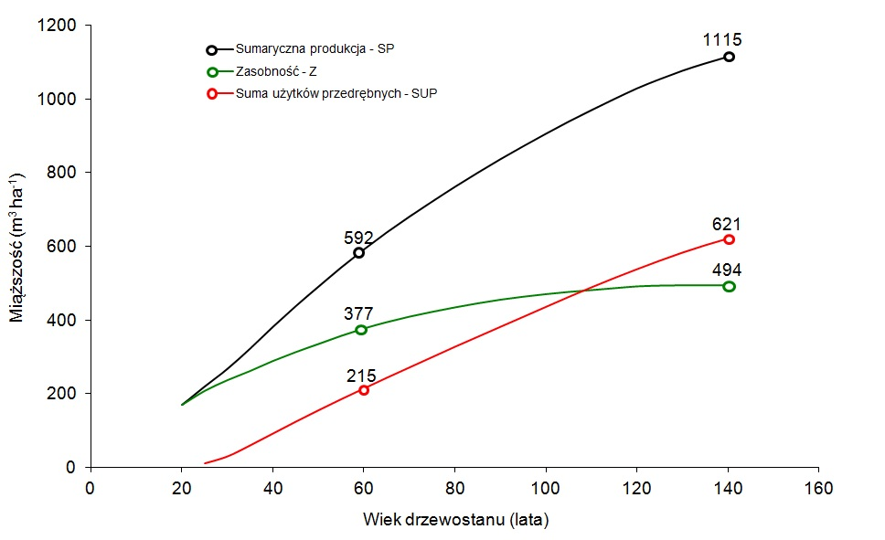 Total stand productivity